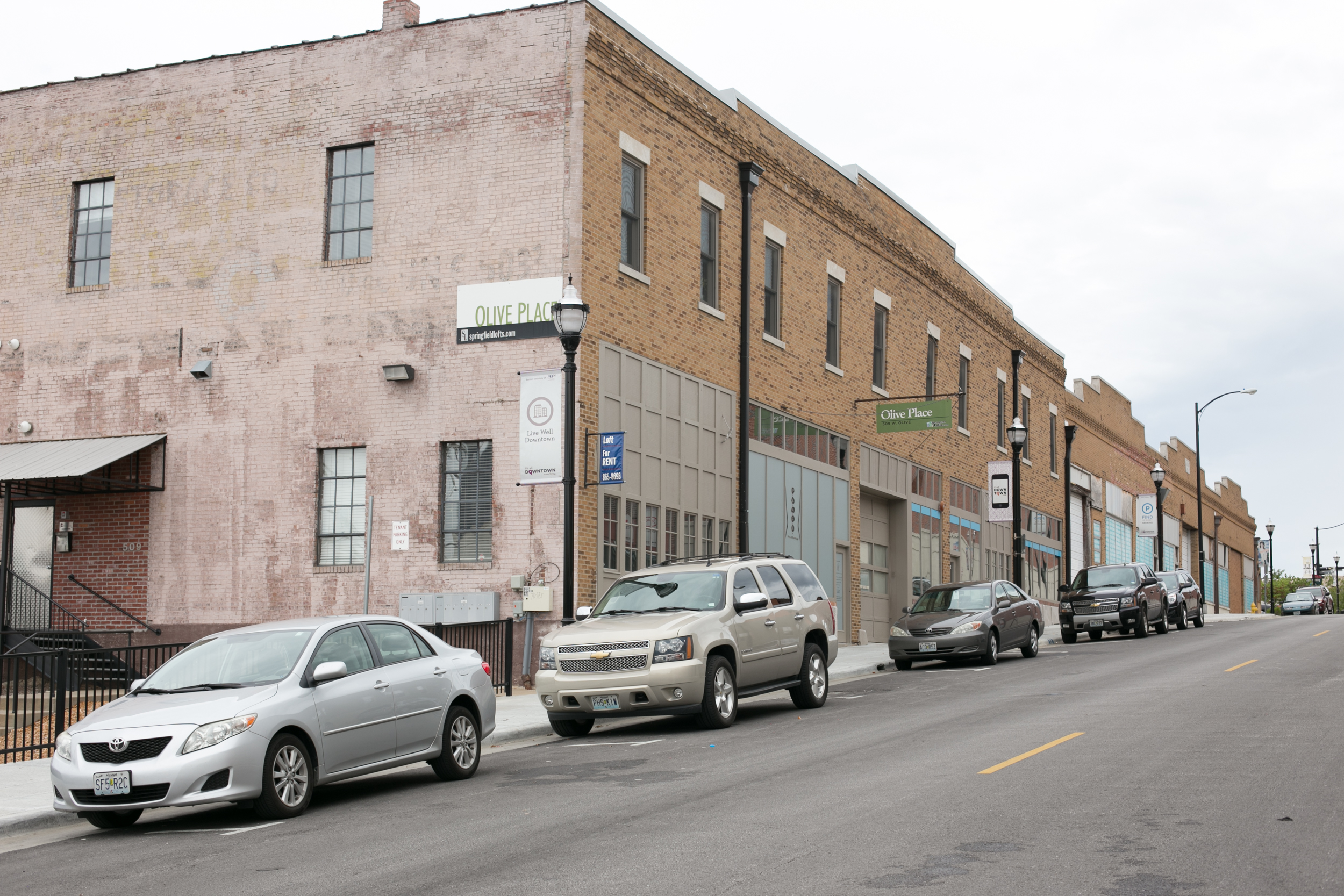 Finkbiner Building, 509-513 W. Oliver St. Springfield